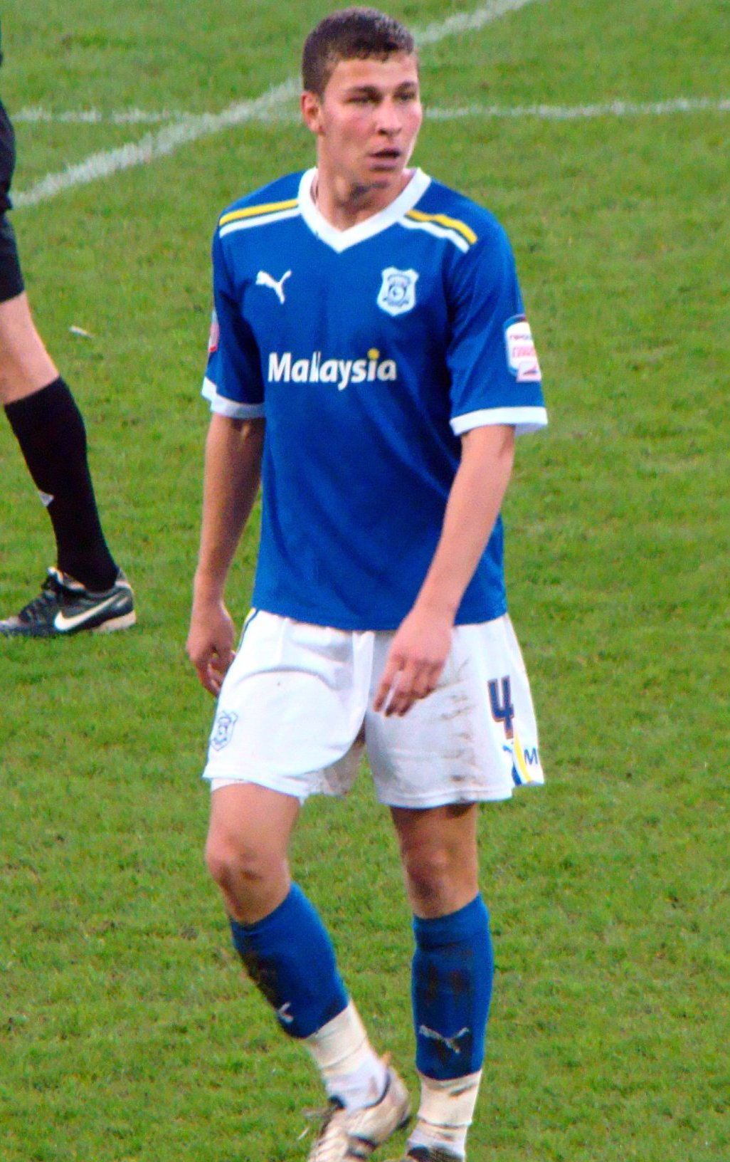 05/11/11 Cardiff V Crystal Palace, Cardiff City Stadium, Cardiff, Wales